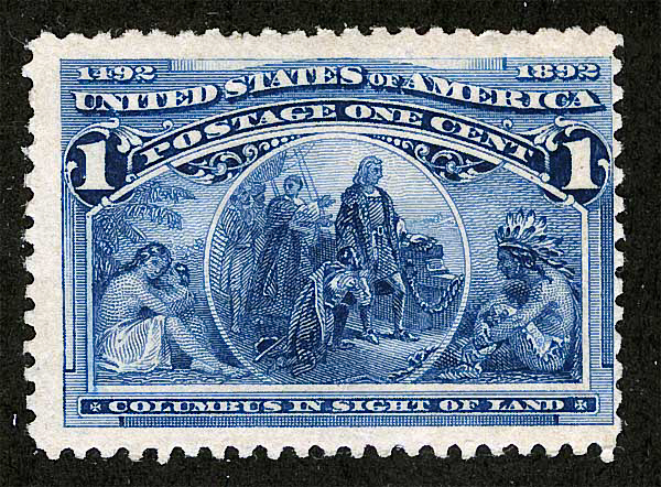 ~ Columbus in Sight of Land ~ Issue of 1893. ~ Columbus in Sight of Land ~. The 1¢ Columbian. ~ Columbus in Sight of Land ~ From a painting by William H. Powell.